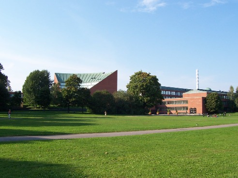 Areal of Helsinki University of Technology Taken in: Summer 2005 Taken By: Vaclav Dekanovsky